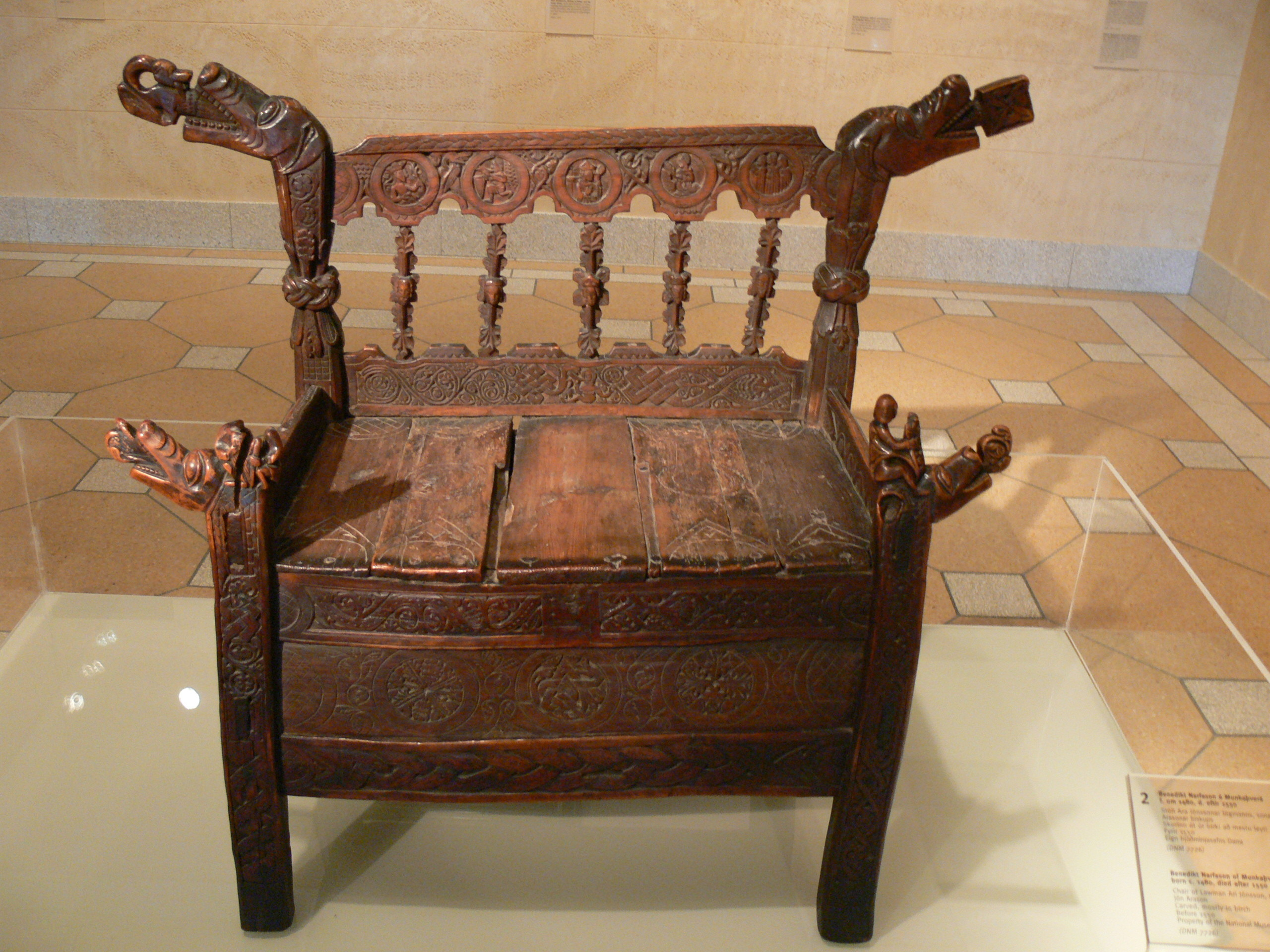 National Museum of Iceland, Reykjavik. Chair ( 1550 ) of lawman Ari Jónsson, son of bishop Jón Arason. Carved, made of birch.